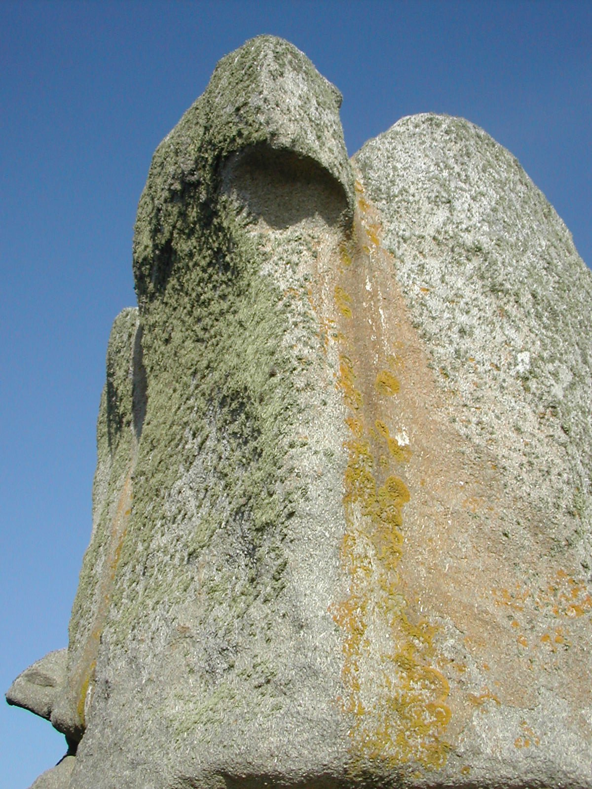 Lichen on a rock. Two lichen species on a rock, at Meneham, Britanny, Finistère, France. Taken with a digital camera. A nice example of the ecological niche concept.